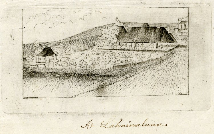 Sheldon Dibble House at Lahainaluna. Low buildings beside a palisaded garden. c.1837. Engraving on a sheet of thin paper. Forbes, David W. (2012) Engraved at Lahainaluna: A History of Printmaking by Hawaiians at the Lahainaluna Seminary, 1834 to 1844, with a Descriptive Catalogue of All Known Views, Maps, and Portraits, Honolulu: Hawaiian Mission Children's Society, p. 110–111